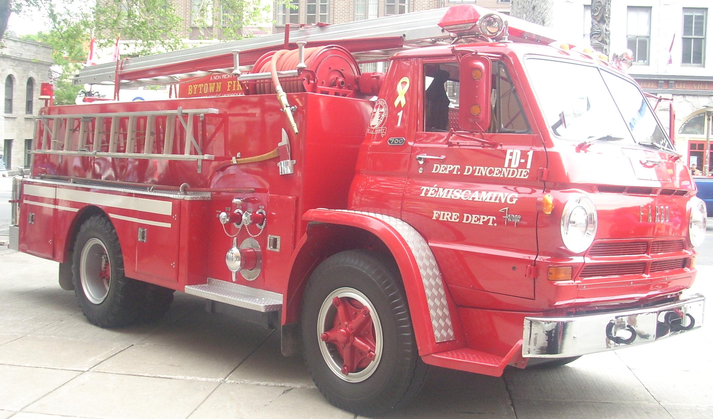 Fargo fire truck photographed in Ottawa, Ontario, Canada at the Byward Market Auto Classic 2009.